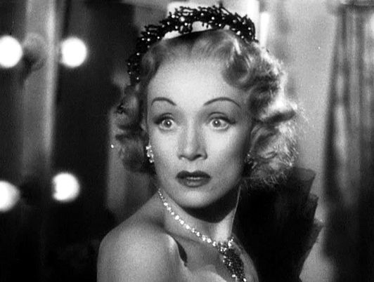 Screenshot of Marlene Dietrich from the trailer for the Alfred Hitchcock film Stage Fright. Dietrich's costume is by Christian Dior and her necklace by Cartier.